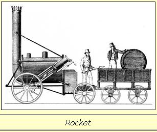 Coupler UJ 1435mm gauge Rocket